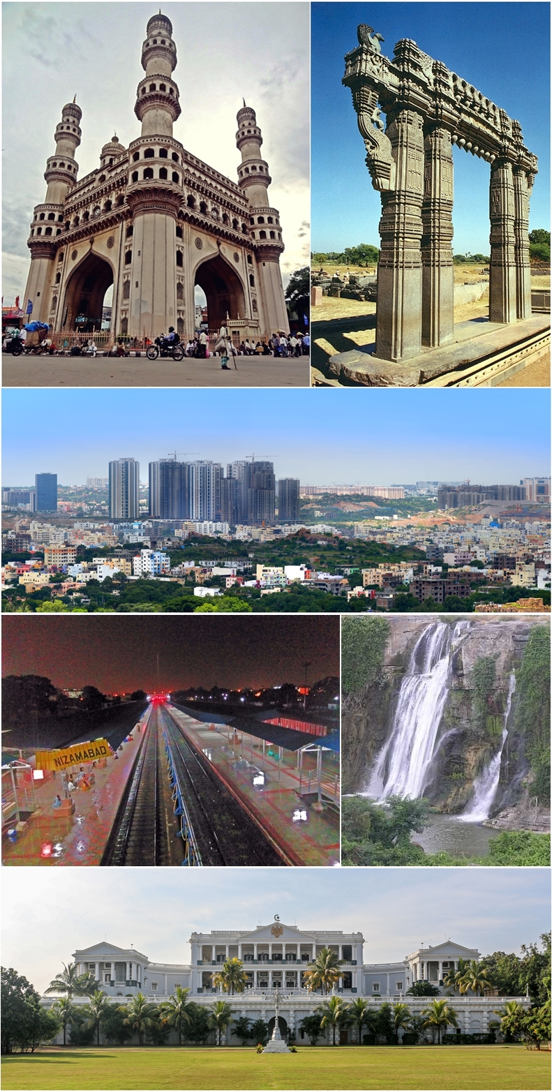 Montage of Telangana sidewise from left: Charminar, Warangal Fort, Hyderabad city, Nizamabad Railway Station, Kuntala Waterfalls, Falaknuma Palace